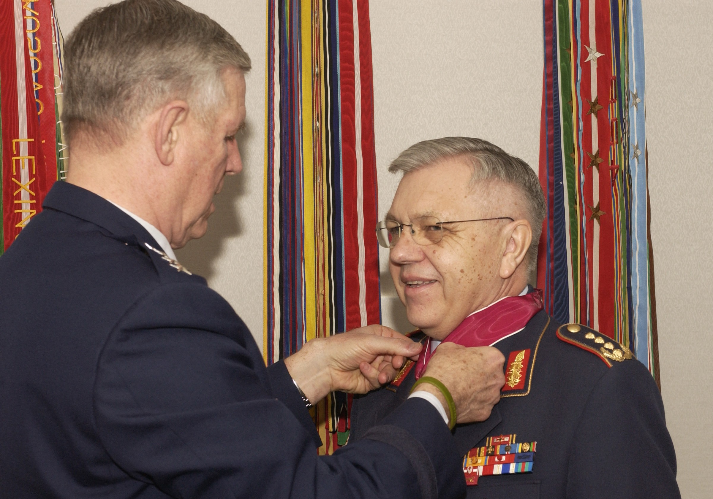 Air Force Gen. Richard B. Myers, chairman of the Joint Chiefs of Staff, awards the Legion of Merit to German Federal Armed Forces Gen. Harald Kujat at the Pentagon on April 7. Kujat received the medal for his work with the North Atlantic Treaty Organization and the Federal Republic of Germany. Photo by Staff Sgt. D. Myles Cullen, USAF